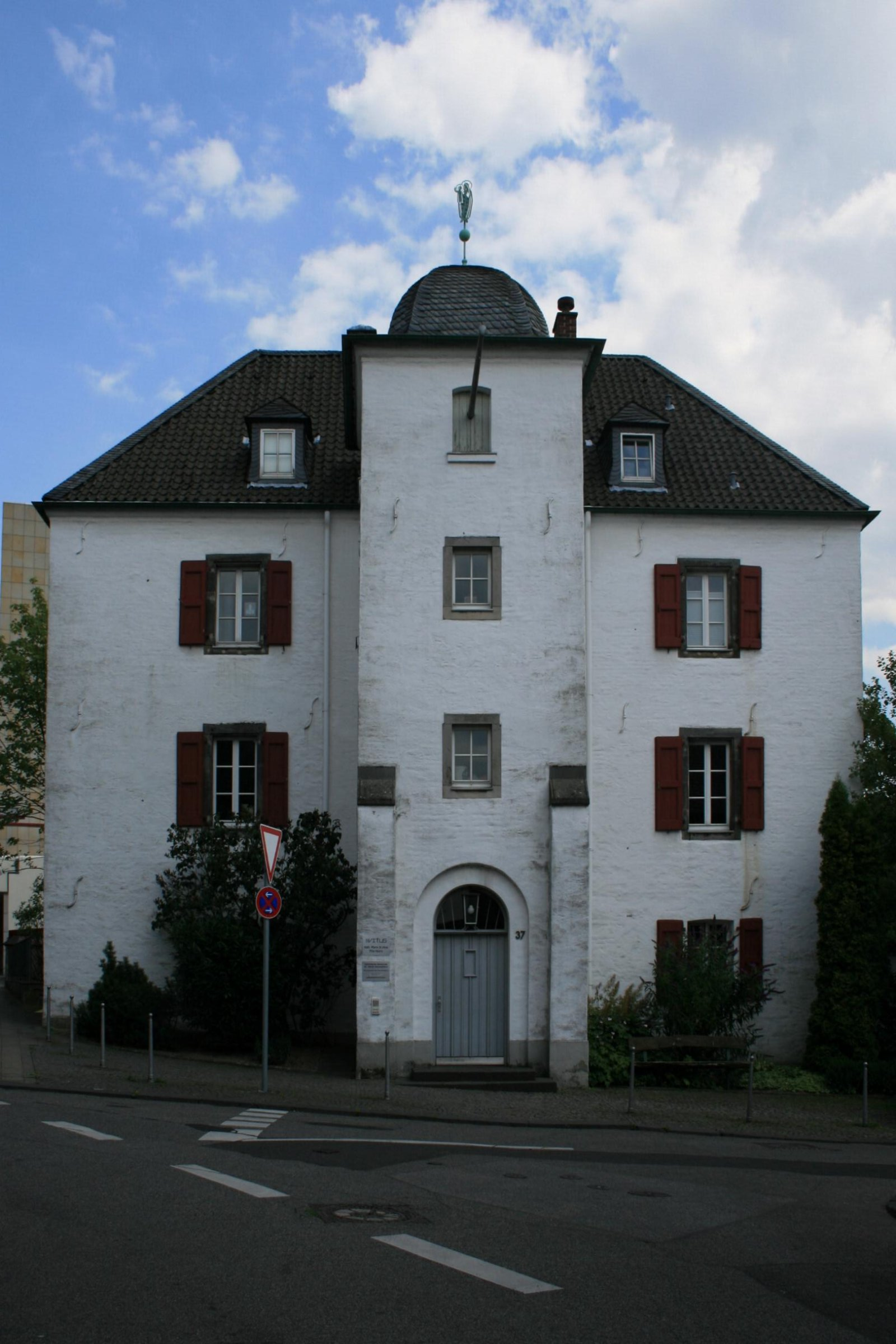 Cultural heritage monument No. A 018 in Mönchengladbach